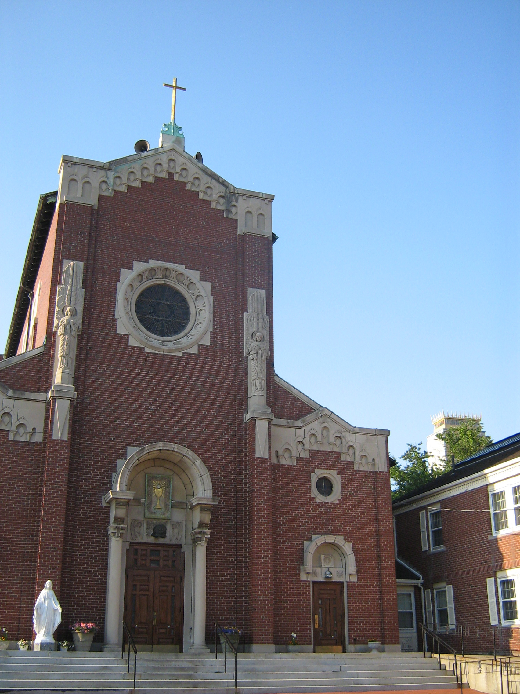 Church of St. Joseph/St. Lazarus, Orient Heights, East Boston.